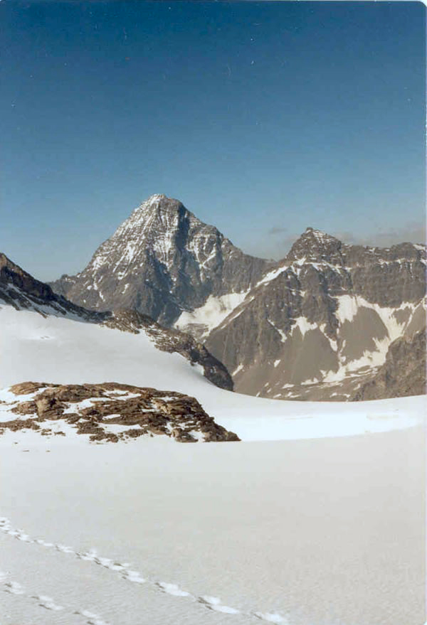 Piz Linard, Switzerland, seen from north.